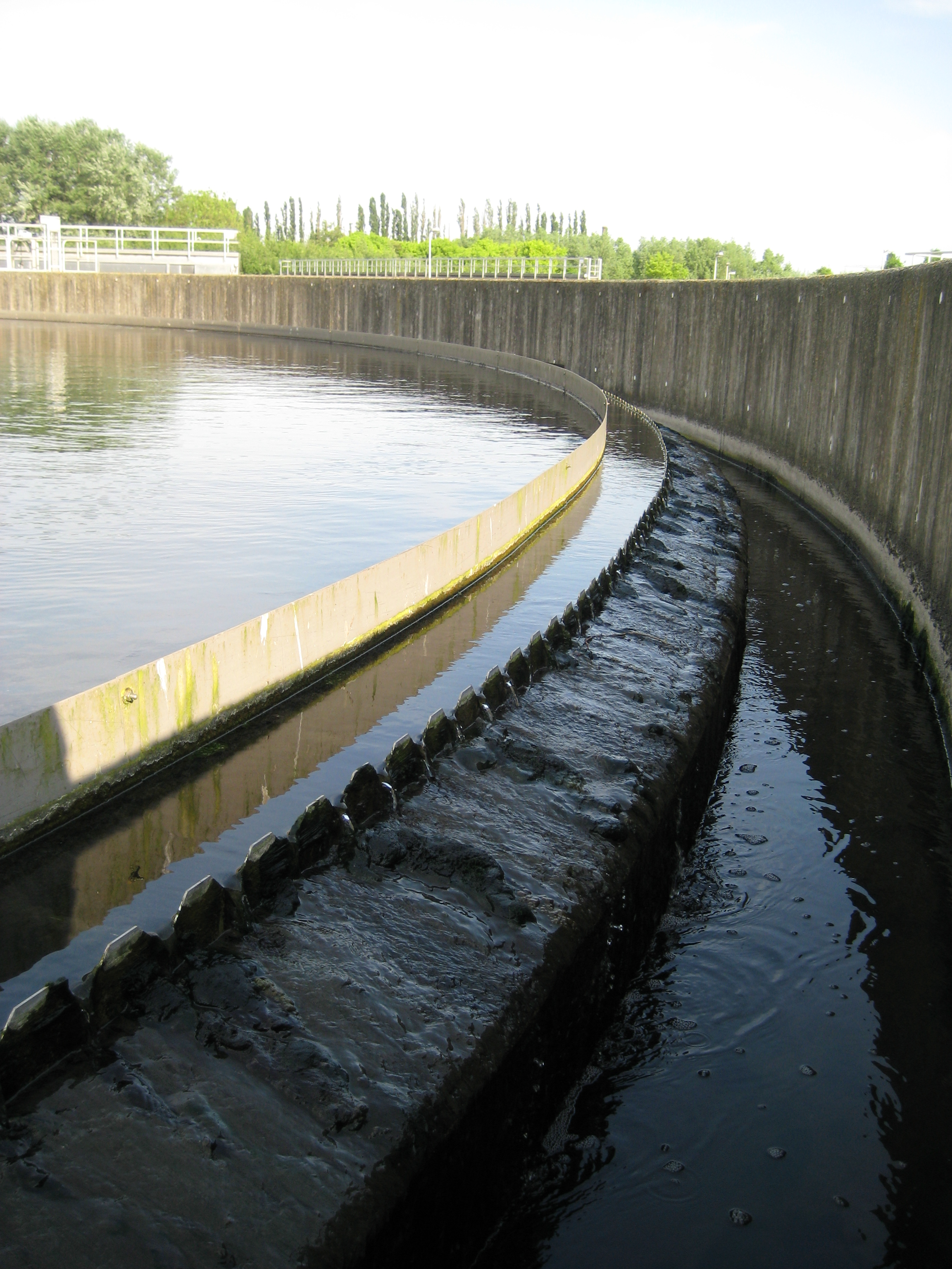 Detail of the side of a secondary clarifier